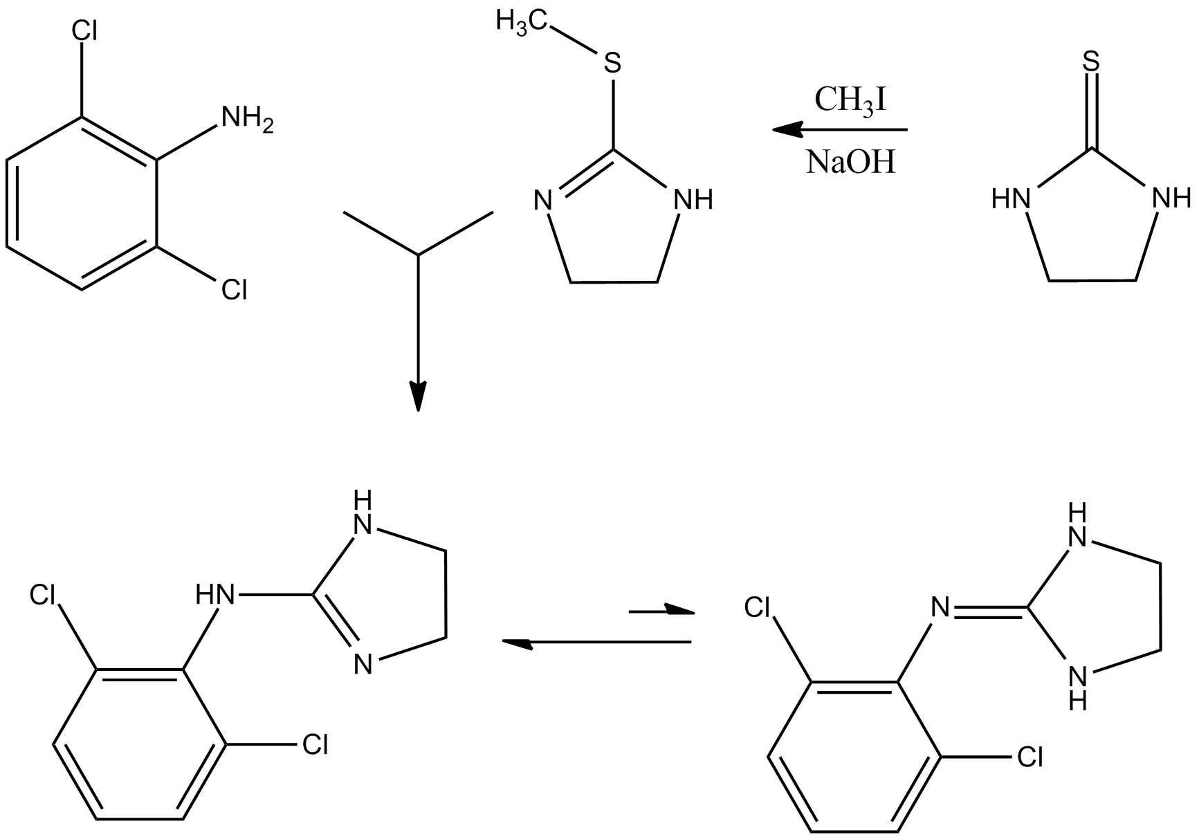 Stahle, H.; Koppe, H.; Kummer, W.; Stockhaus, K.; 1976, U.S. Patent 3,937,717.